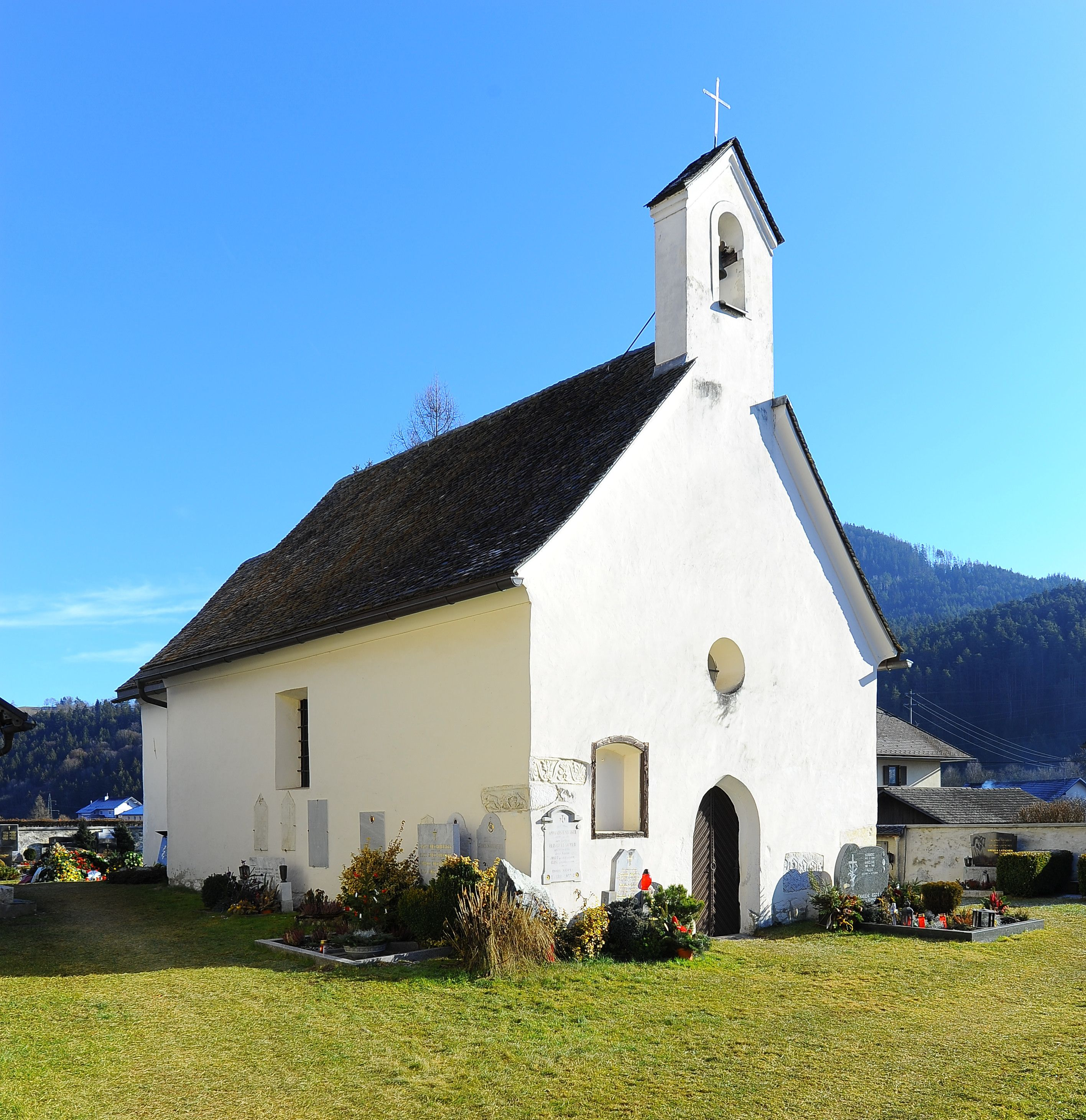 Subsidiary church Saint Stephen in Zweikirchen #1, market town Liebenfels, district Sankt Veit, Carinthia, Austria, EU